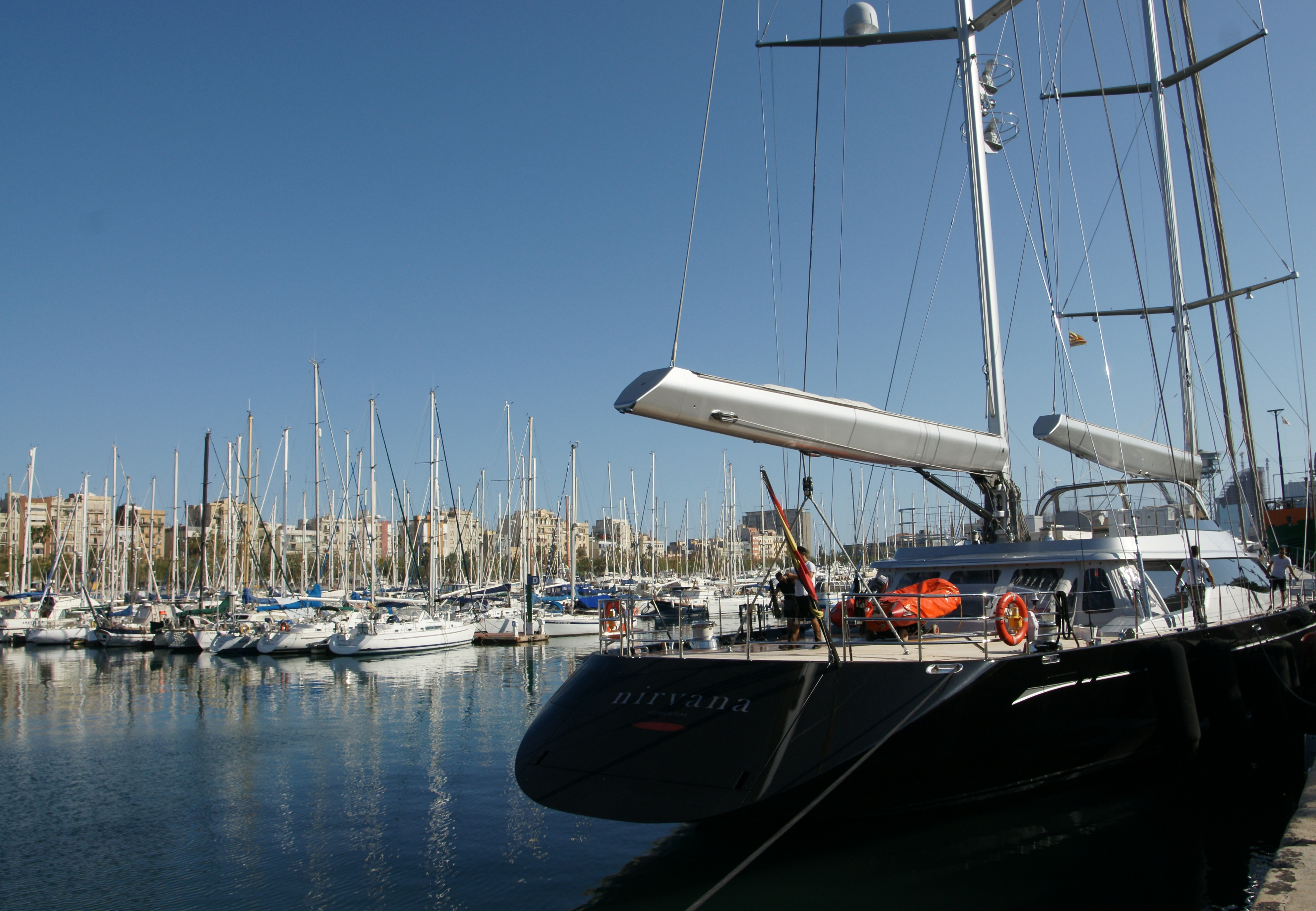 Isak Andic's ketch Nirvana (Ed Dubois design, built at the Vitters Shipyard in 2007) docked in Barcelona